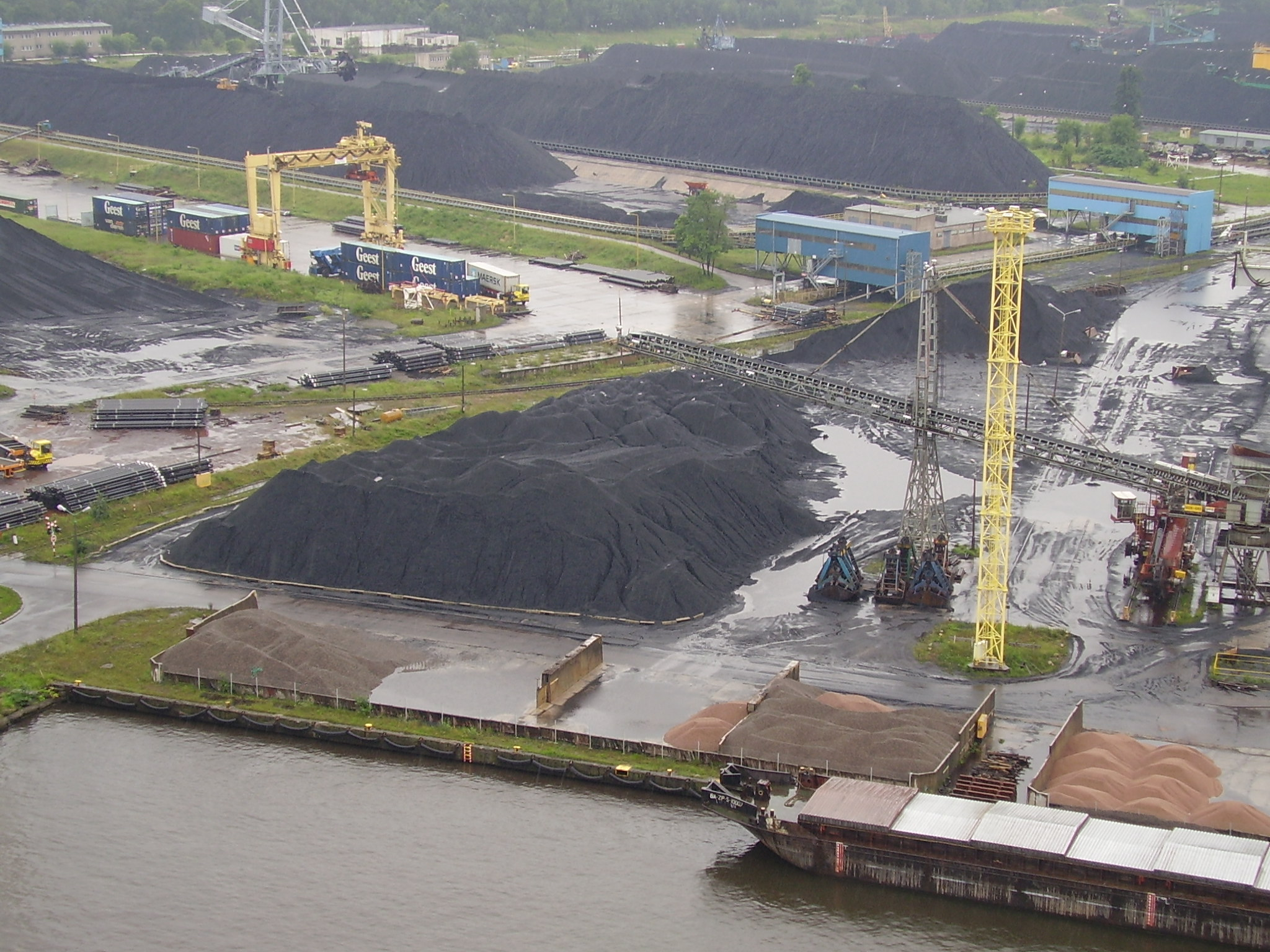 Harbour in Świnoujście (Poland)